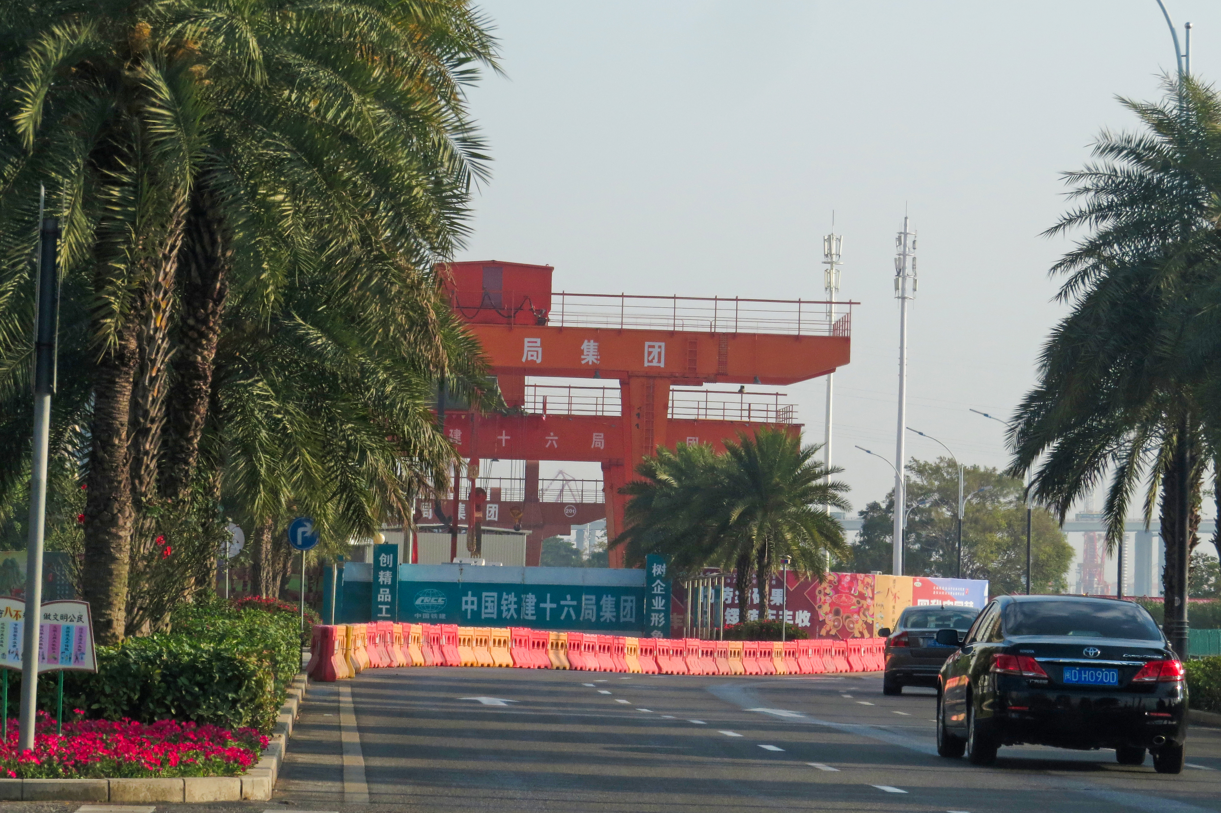 Taken on Haicang Avenue, Xiamen. Line 2 links Haicang and Xiamen Island.